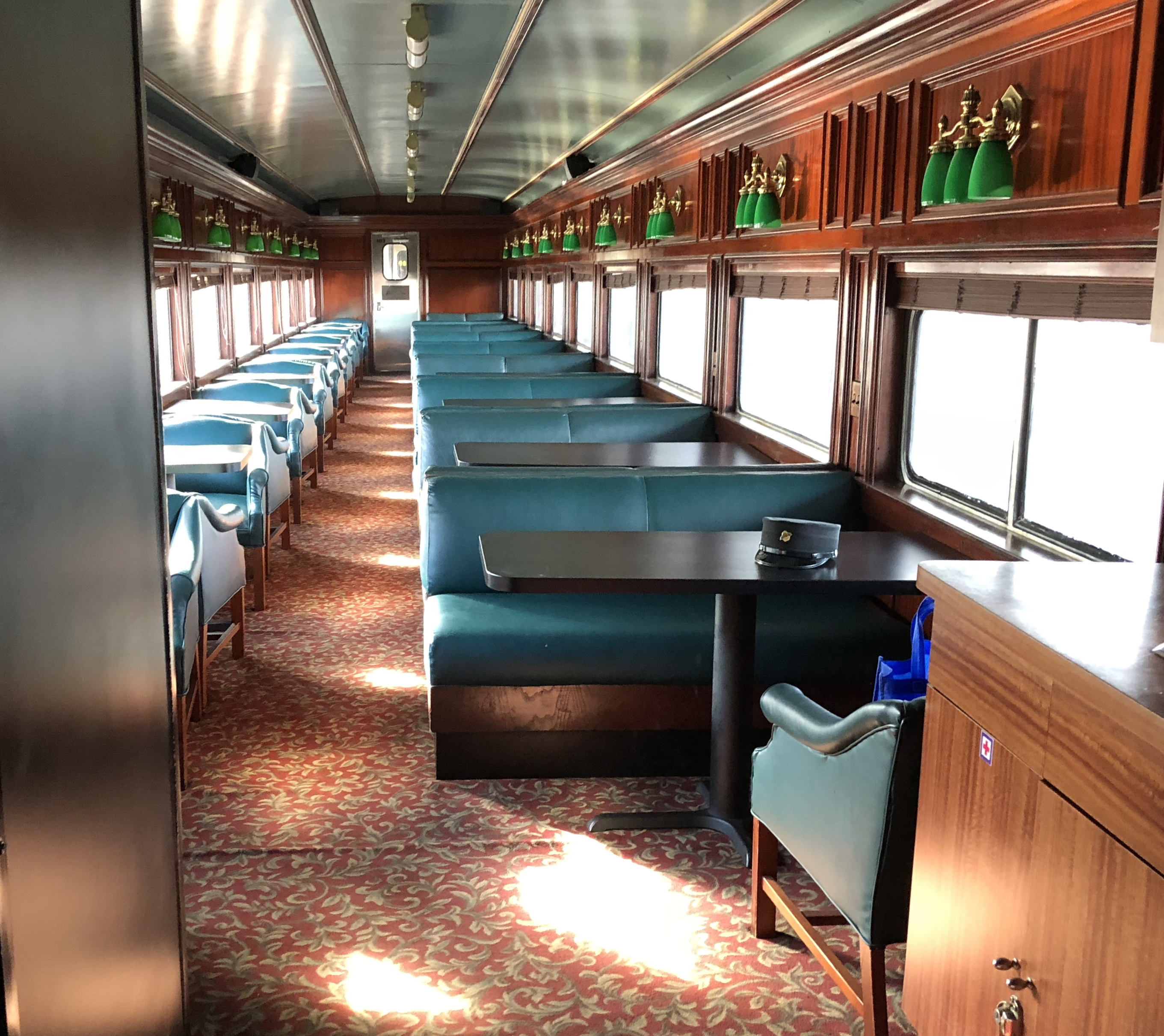 Interior of a Panama Canal Railway single-level passenger car